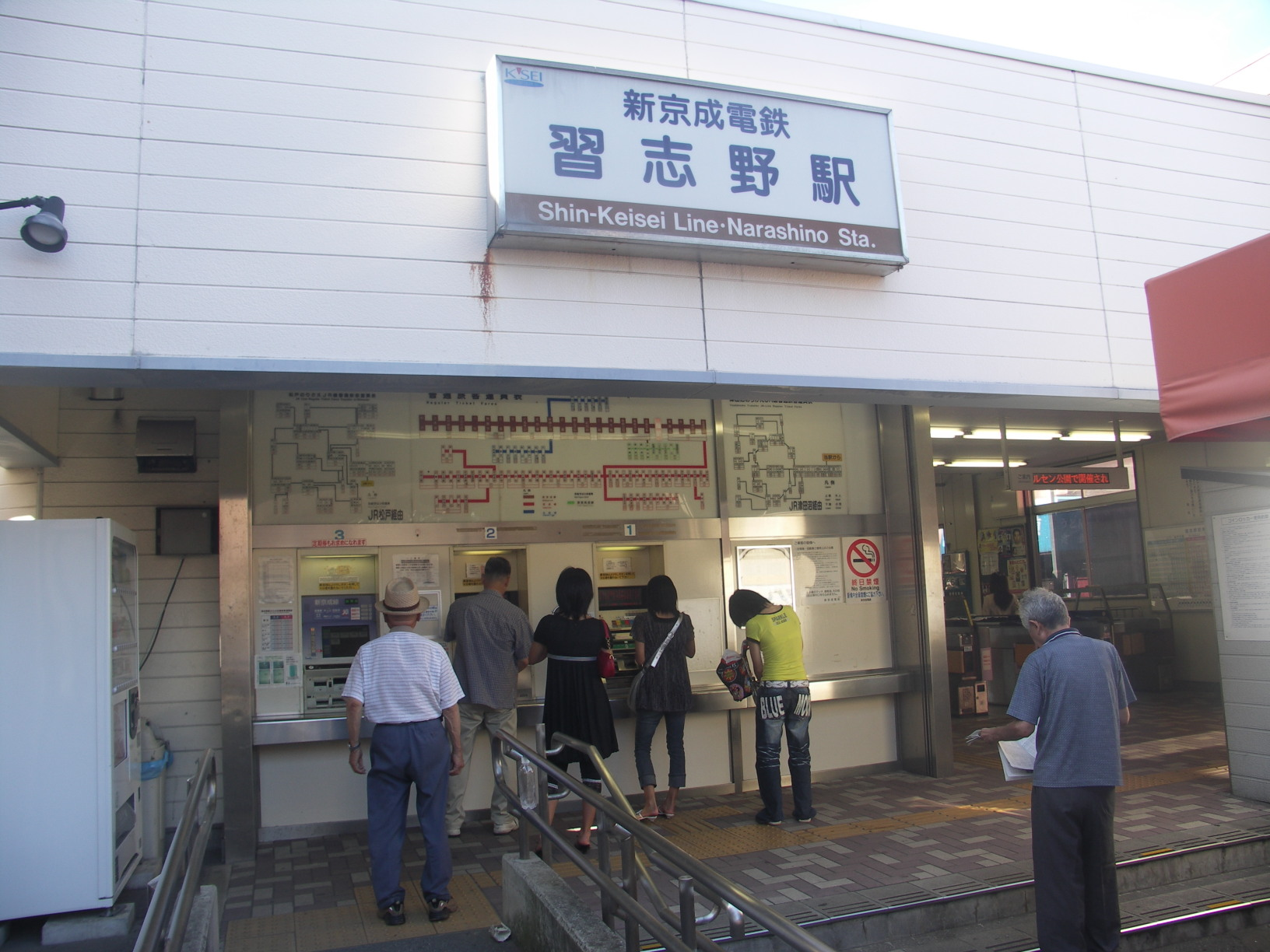 Narashino station, Shin-Keisei Line, Chiba, Japan, 習志野駅